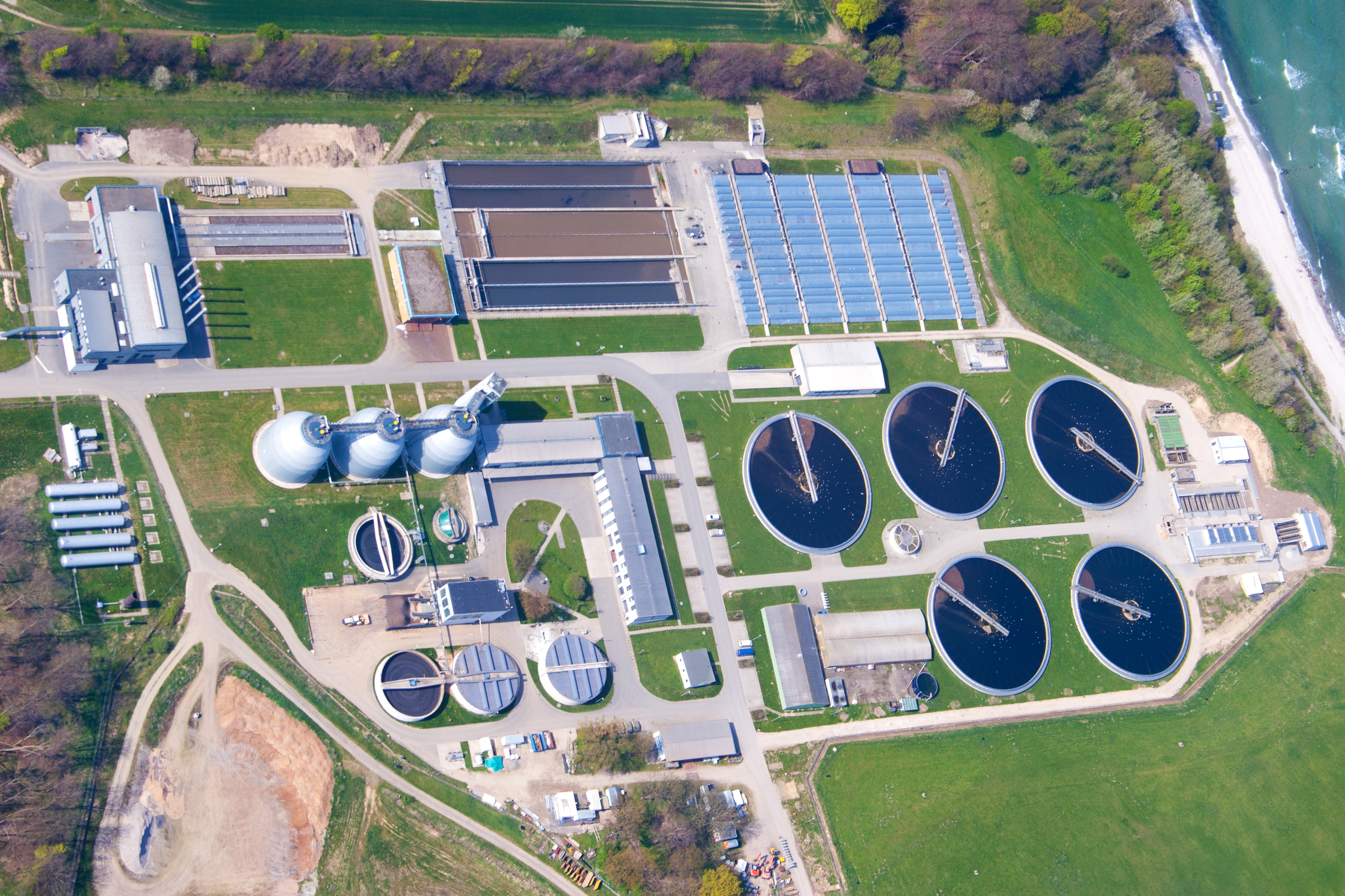 Sewage treatment plant Kiel-Bülk in Schleswig-Holstein